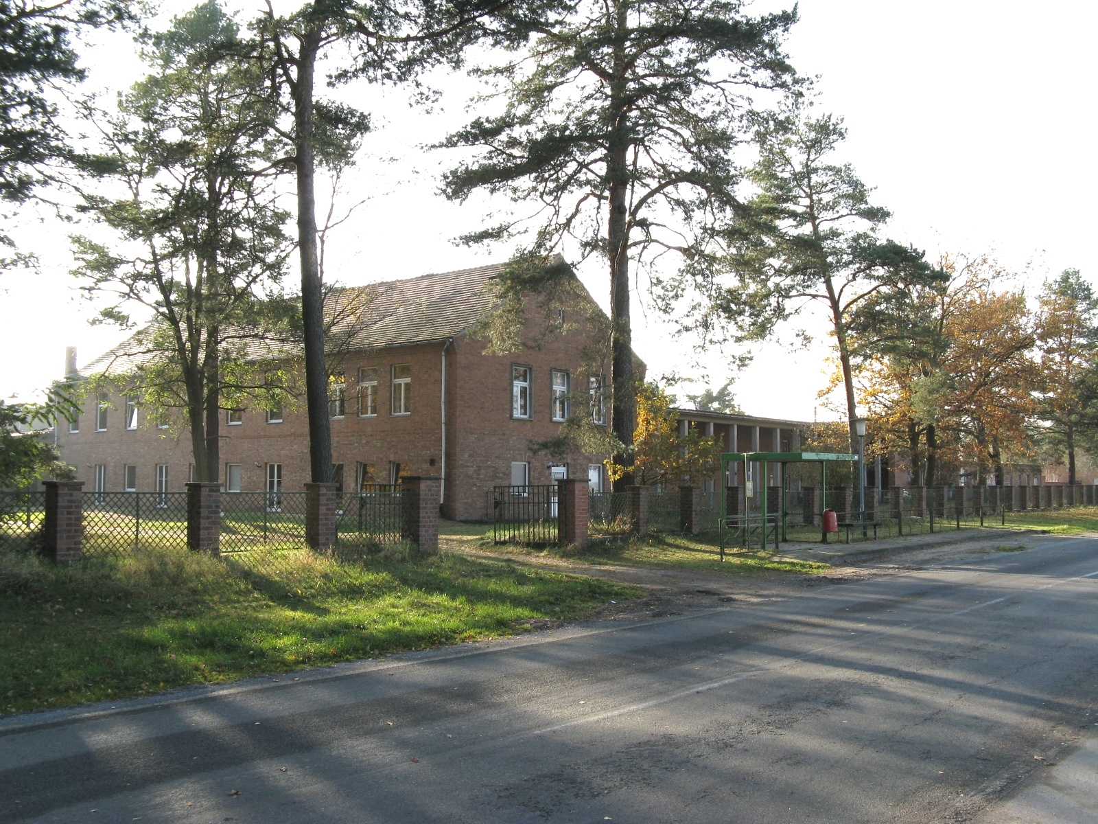 Former medium wave radio station in Wöbbelin, district Ludwigslust-Parchim, Mecklenburg-Vorpommern, Germany